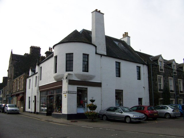 A shop in the main street with an interesting design. This shop, with first floor corner turret, on the corner of Melville Square, was designed by Charles Rennie Mackintosh in a version of the Scottish vernacular style.